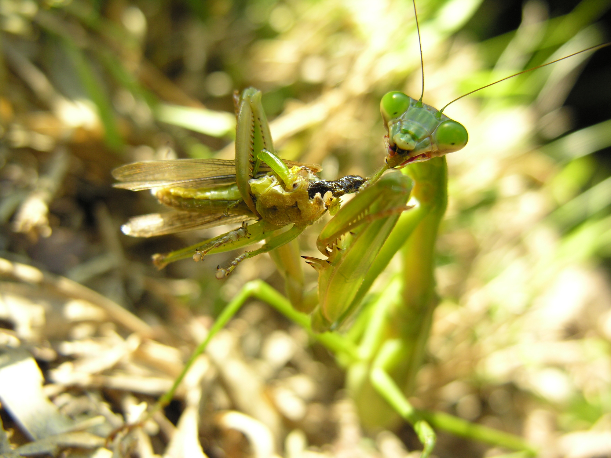 Mantis(Tenodera aridifolia) eating locust(Oxyinae)